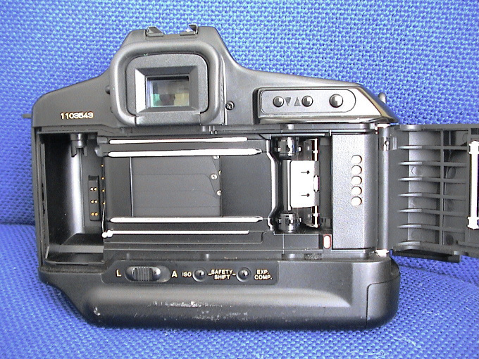 Canon T90 single-lens reflex camera.